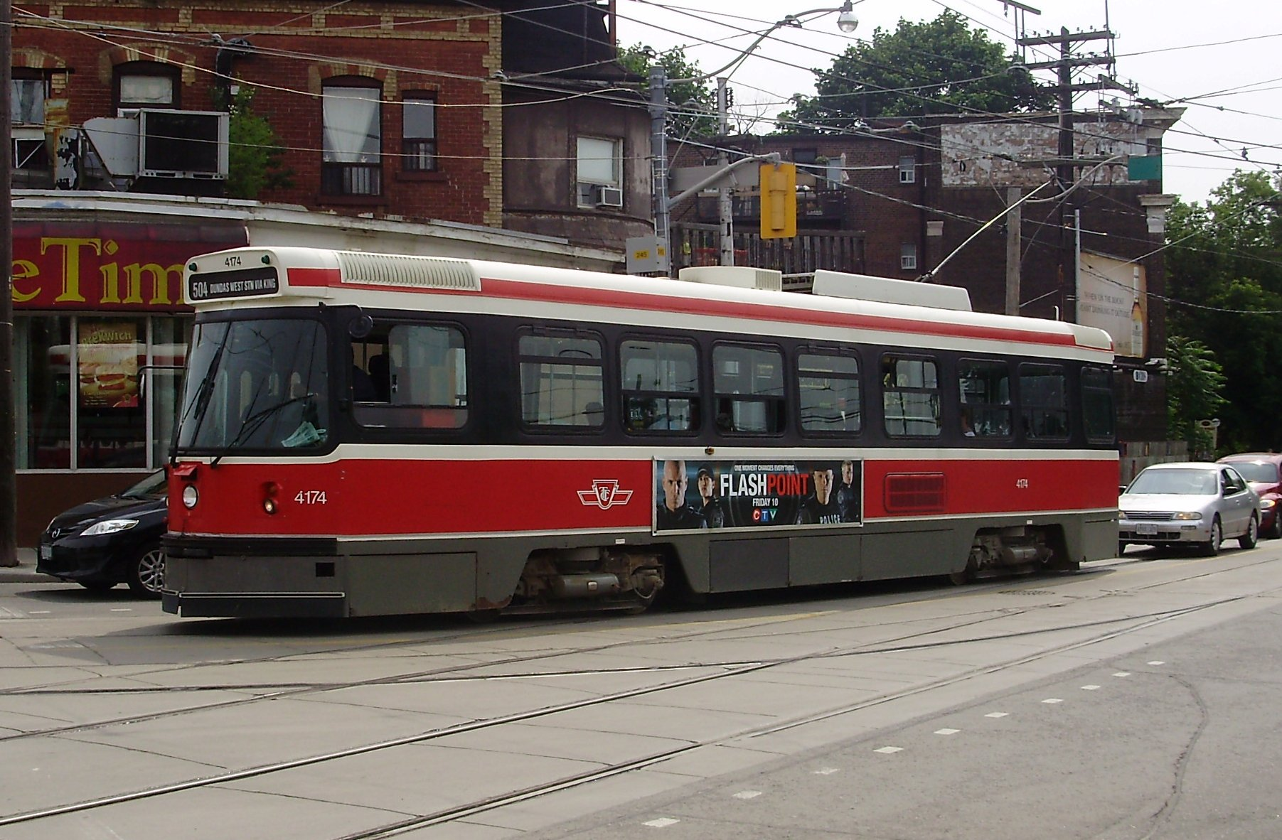 The Toronto Transit Commission's CLRV 4174, serving the 504 King streetcar route and bound for Dundas West station, stopped at the intersection of King Street West and Queen Street West in Toronto, Canada.